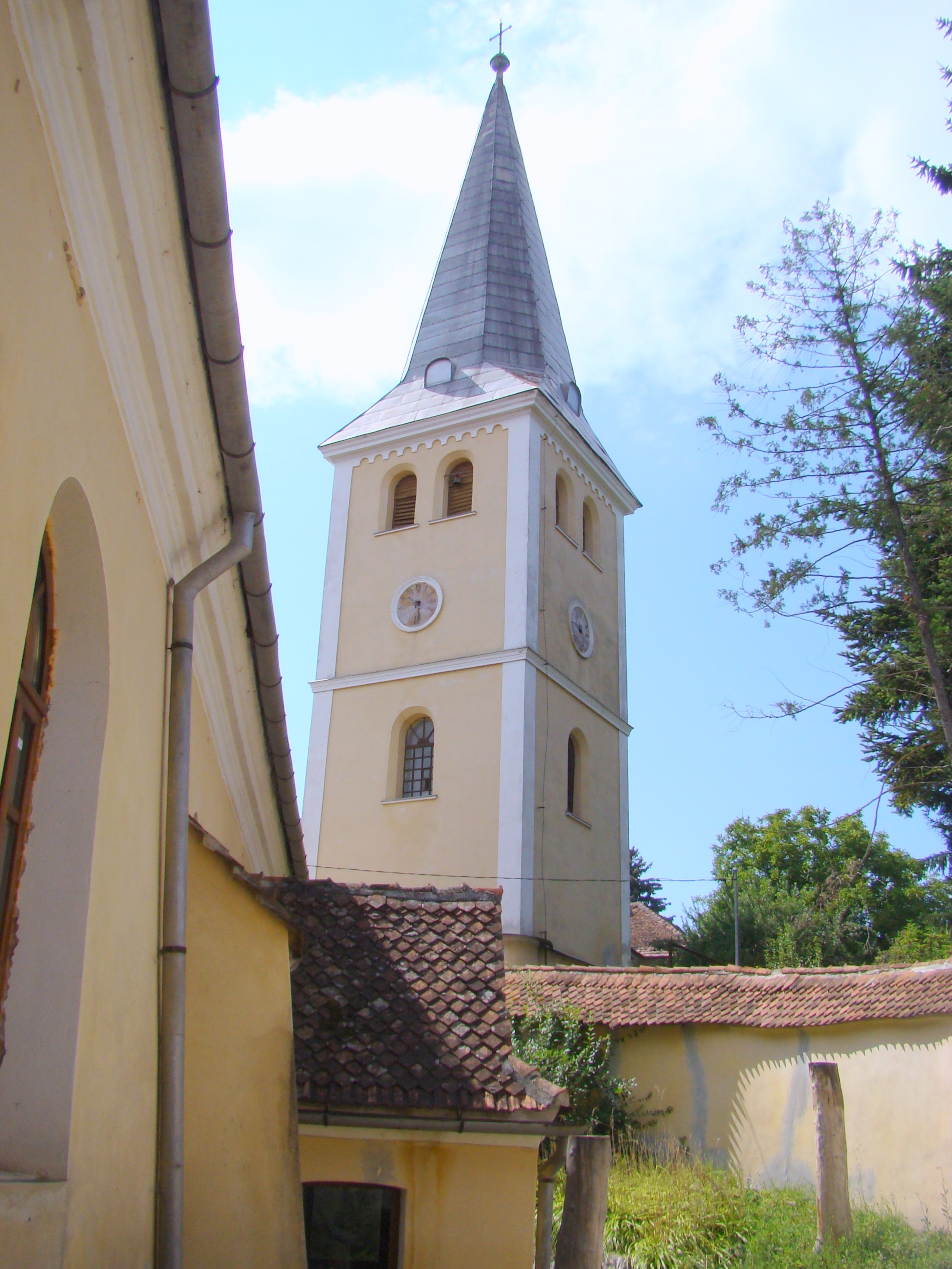 Lutheran church in Apața, Brașov County, Romania